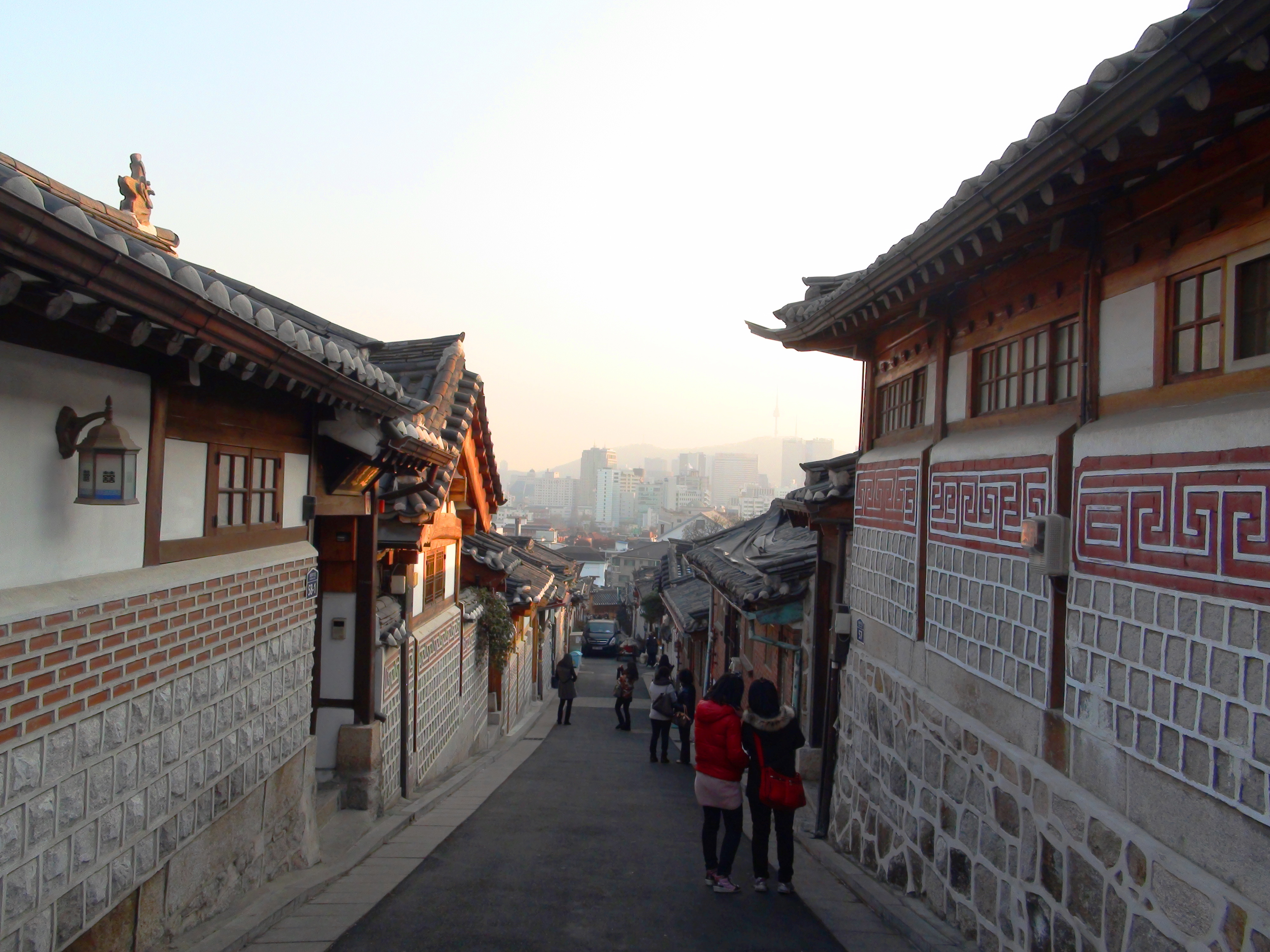 Area west of Bukchon Hanok Village in Seoul